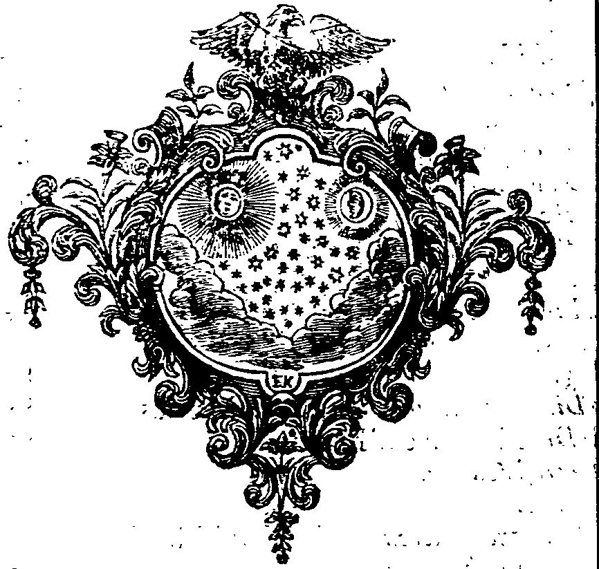 Fleuron from book: Poems on several occasions. By the Lady Chudleigh.